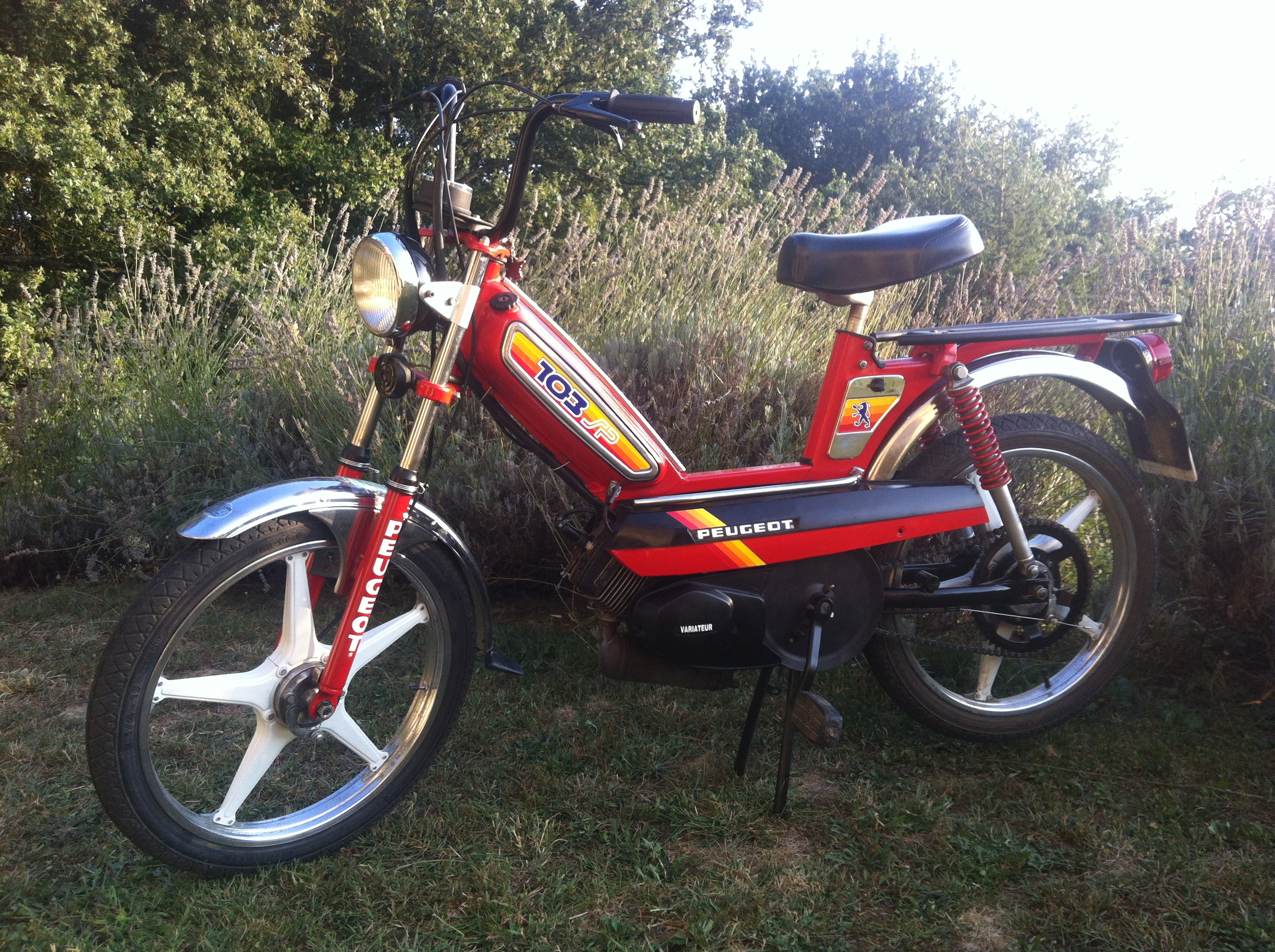 103 SP 1985 very close to original